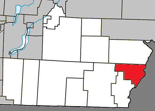 Location of Saint-Venant-de-Paquette within Coaticook Regional County Municipality.